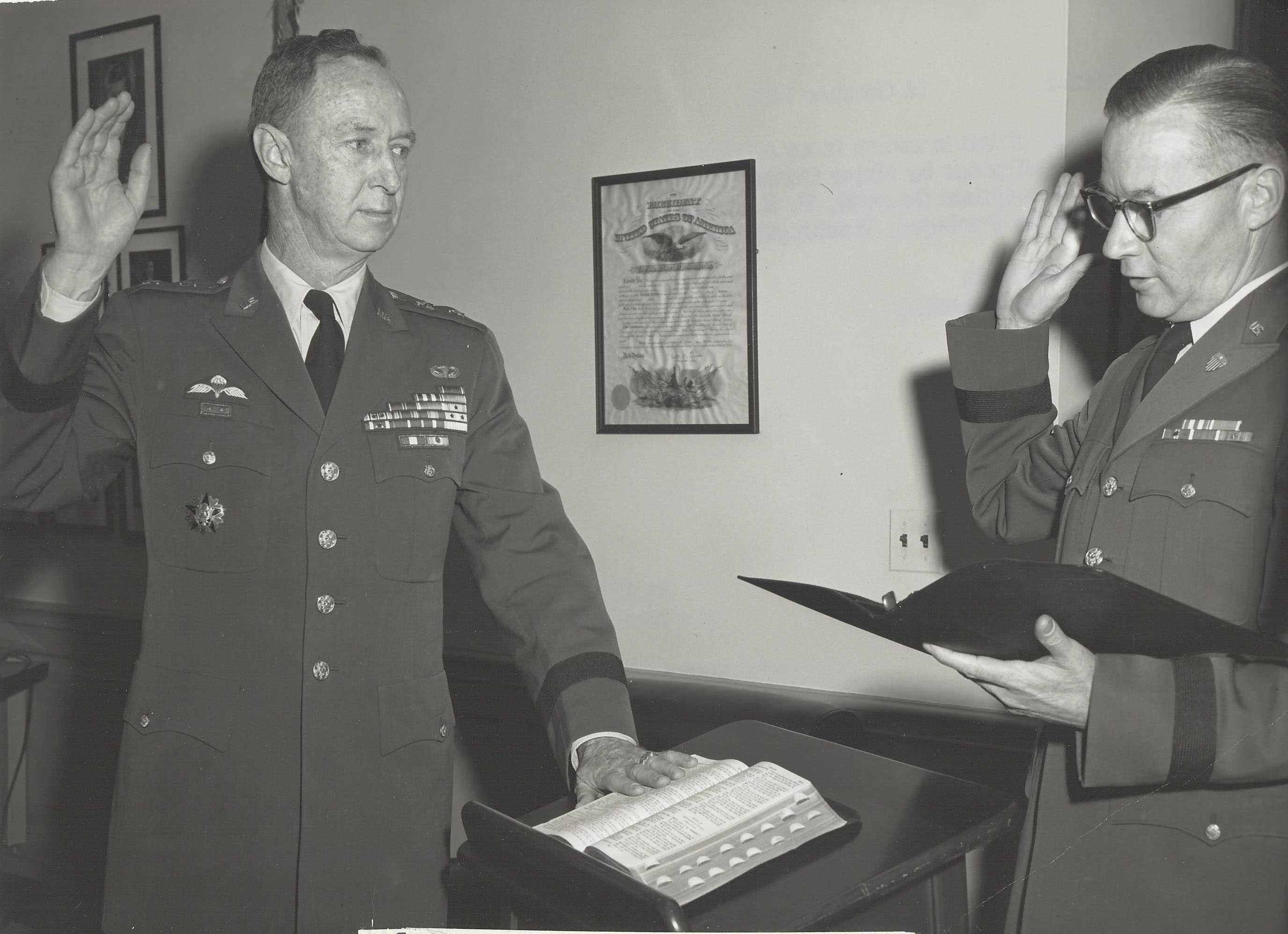 Maj. Gen. A. R. Fitch is sworn in as Assistant Chief of Staff for Intelligence by Maj. Gen. J.C. Lambert, the Adjutant General, US Army, in ceremony held at the Pentagon, Washington, D.C.